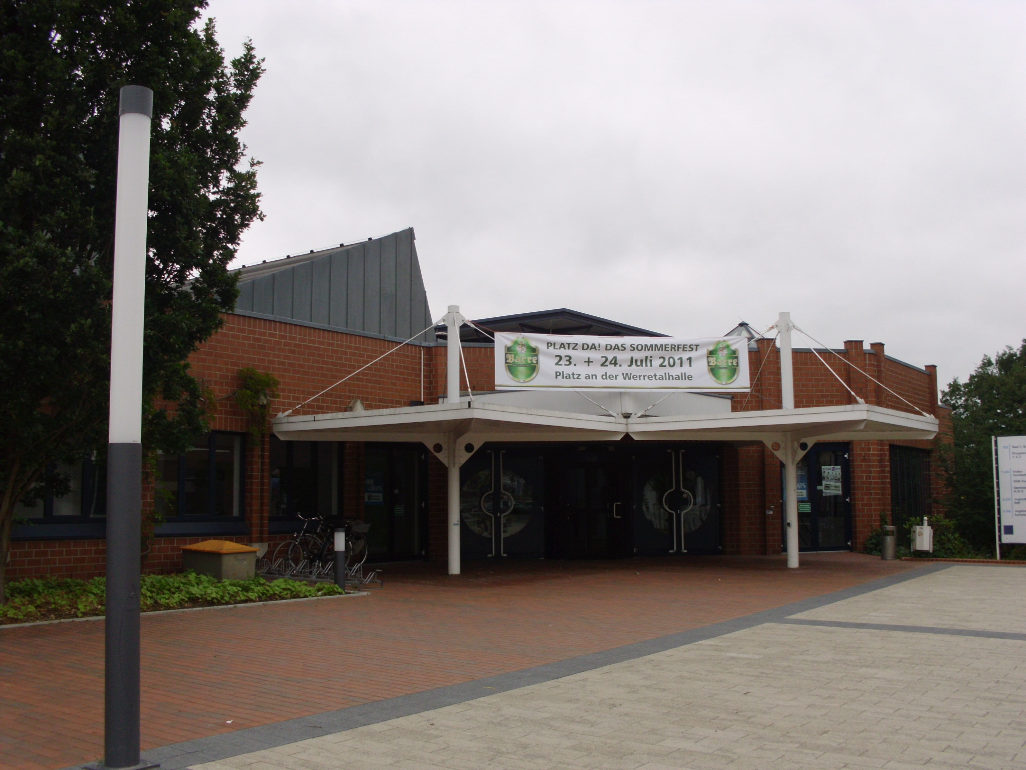 Veranstaltungshalle Werretalhalle